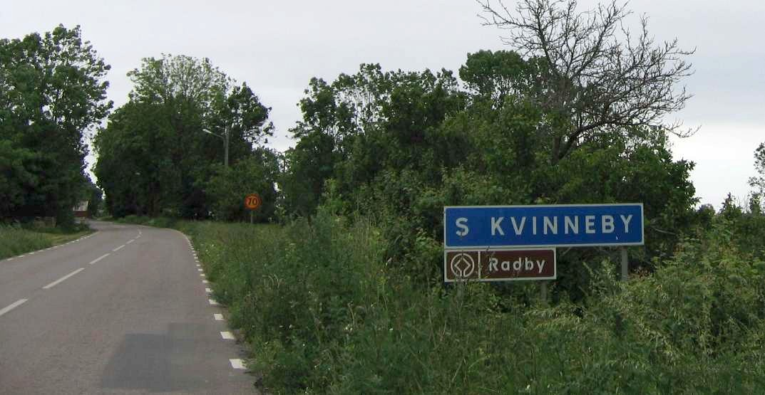 road sign